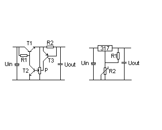 Voltage regulator